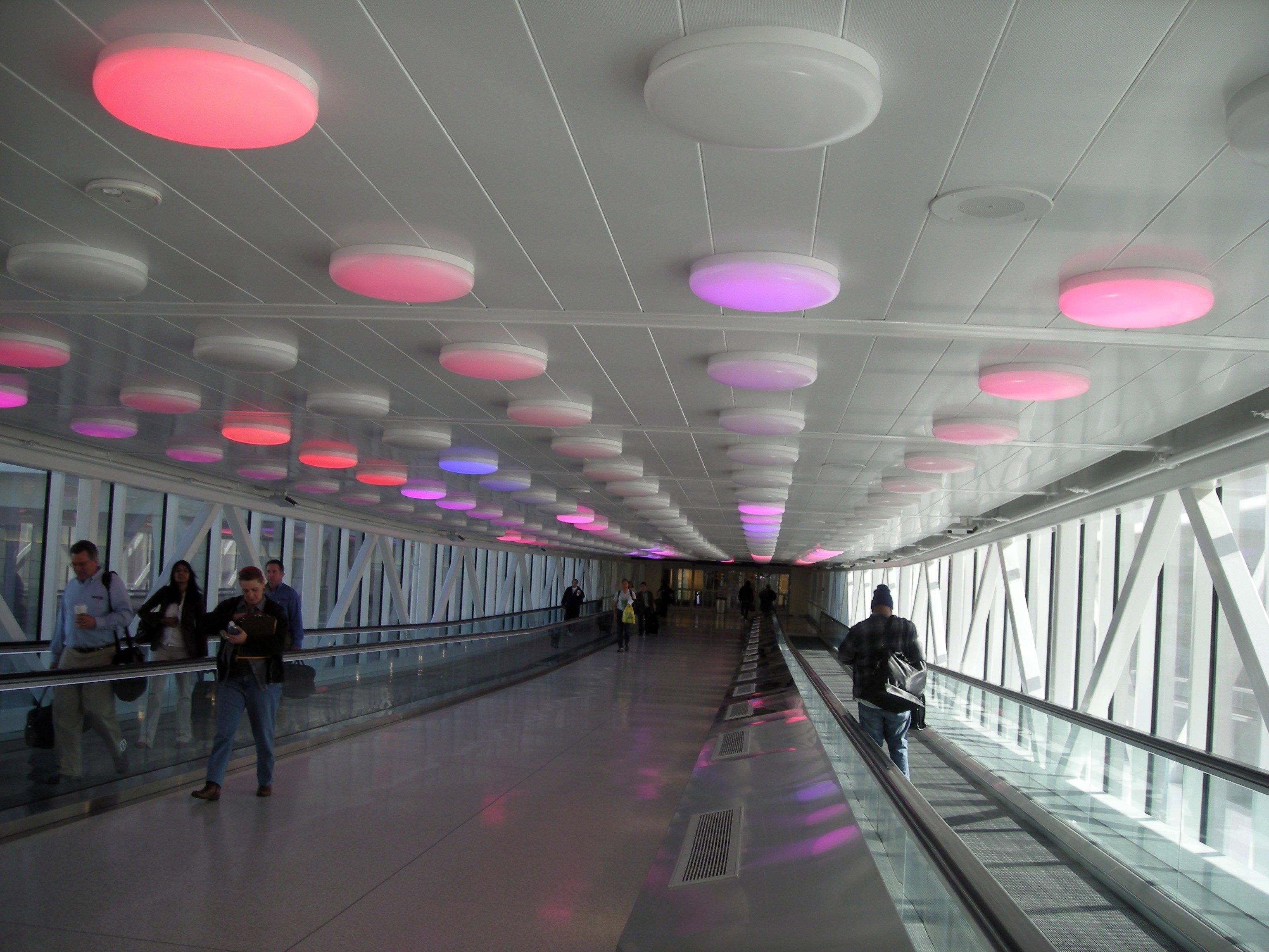 The new Indianapolis Airport is reminiscent of a starship. As you walk along the corridor between the terminal and the parking garage, there are multicolored lights overhead which are continually emerging in various patterns.